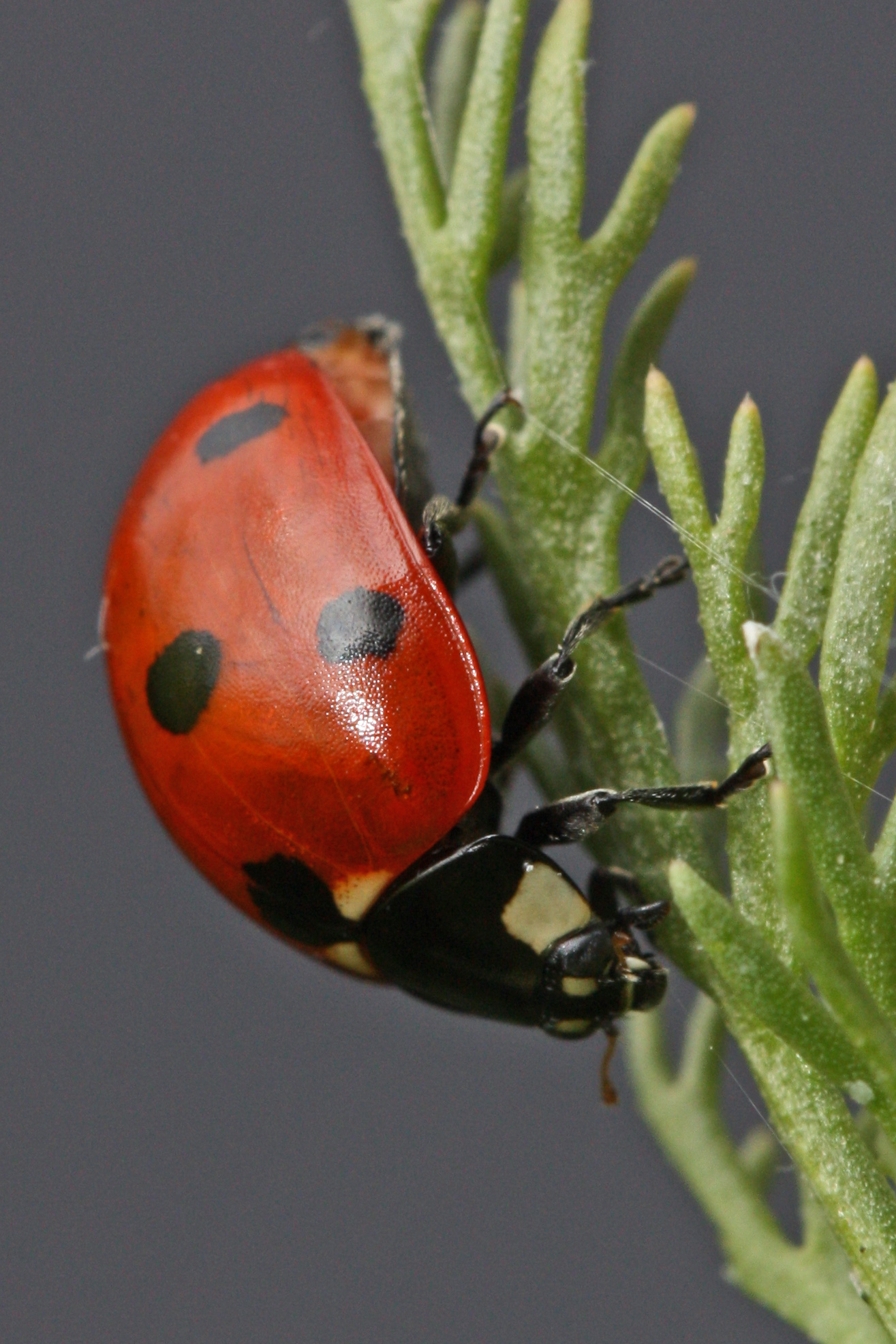 Sevenspotted Lady Beetle on Disc Mayweed (Matricaria discoidea)